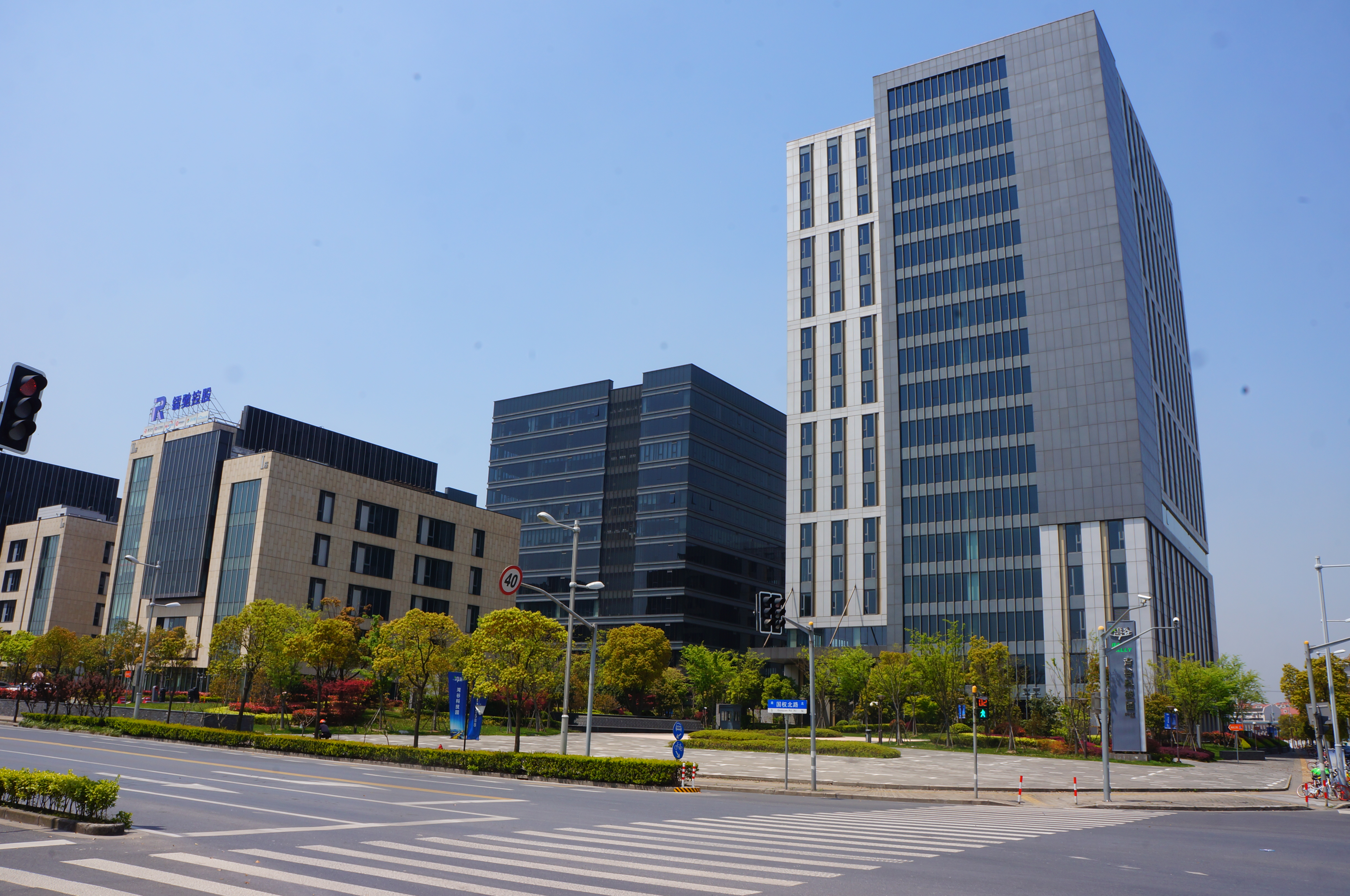 201704 Wangu Science and Technology Park